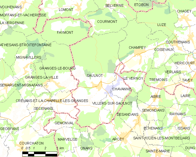 Map of French municipality